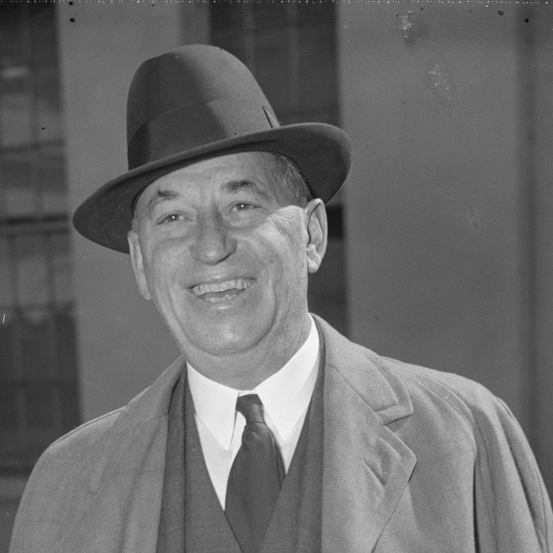 White House caller. Washington, D.C., Oct. 8. Walter Chrysler, automobile magnate, was a White House caller today. He refused to divulge the nature of his conversation with President Roosevelt.